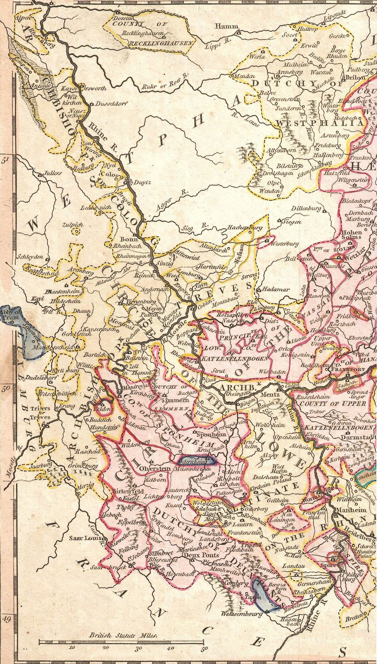 The left bank of the Rhine around 1789. Cropped from a larger map showing the states of the Circles of the Upper Rhine, the Lower Rhine and Franconia, by British map maker and atlas publisher Robert Wilkinson. From his General Atlas of the World published in 1794. The states not belonging to those three Circles are not marked out or colorized. By 1797, the armies of the French Republic had occupied and de facto annexed all of the left bank up to the Dutch Republic to France. Many German states located astride the Rhine, particularly ecclesiastical states such as Cologne, Mainz ("Mentz"), Trier ("Treves"), Speyer ("Spires"), Worms, as well as secular ones like the Palatinate of the Rhine, found themselves highly mutilated as a result. Others that were entirely located on the left bank, like Sponheim and Sweibrucken ("Deux-Ponts"), disappeared altogether.